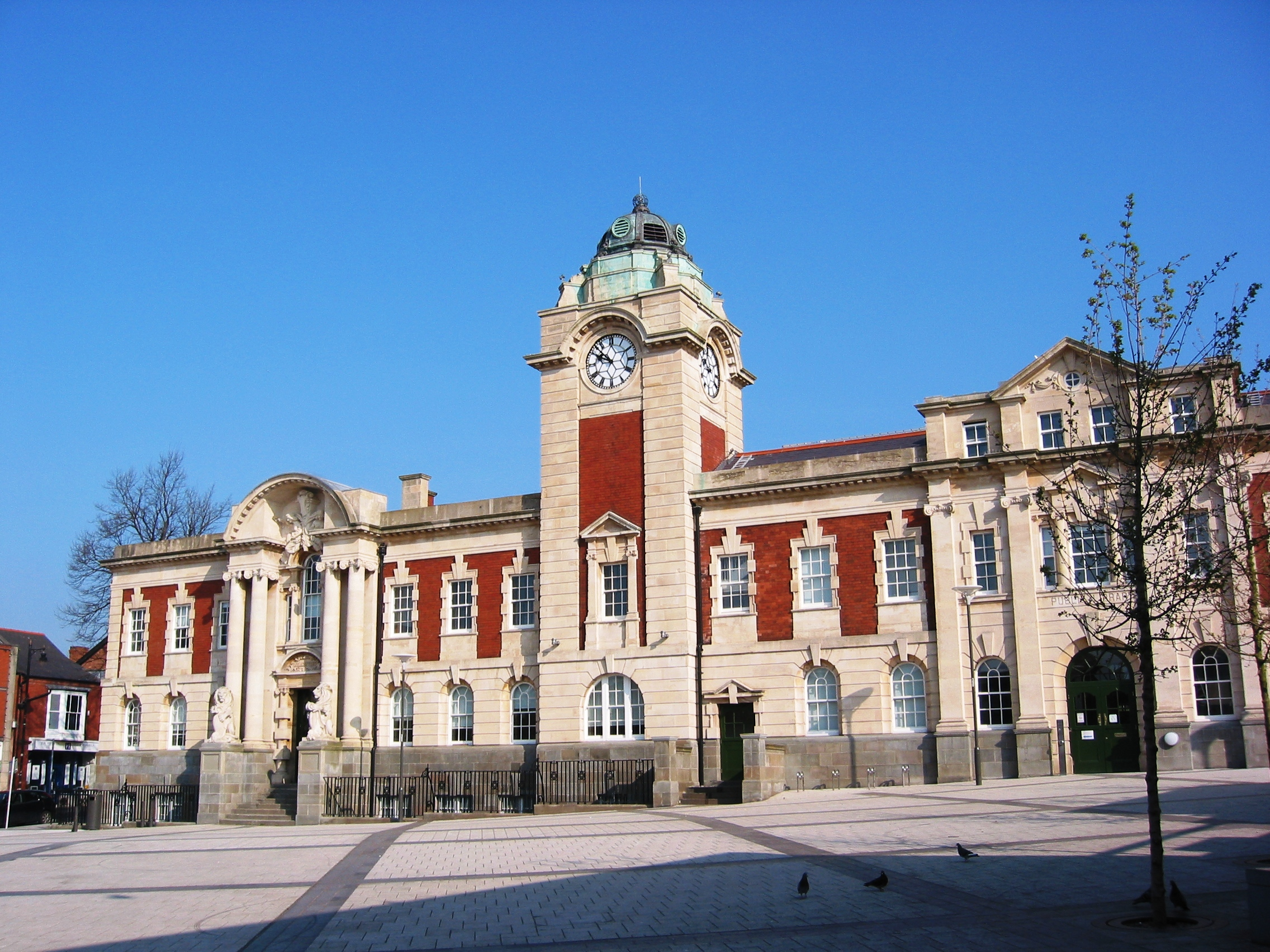 Barry Council Office and Library, Kings Square, Barry